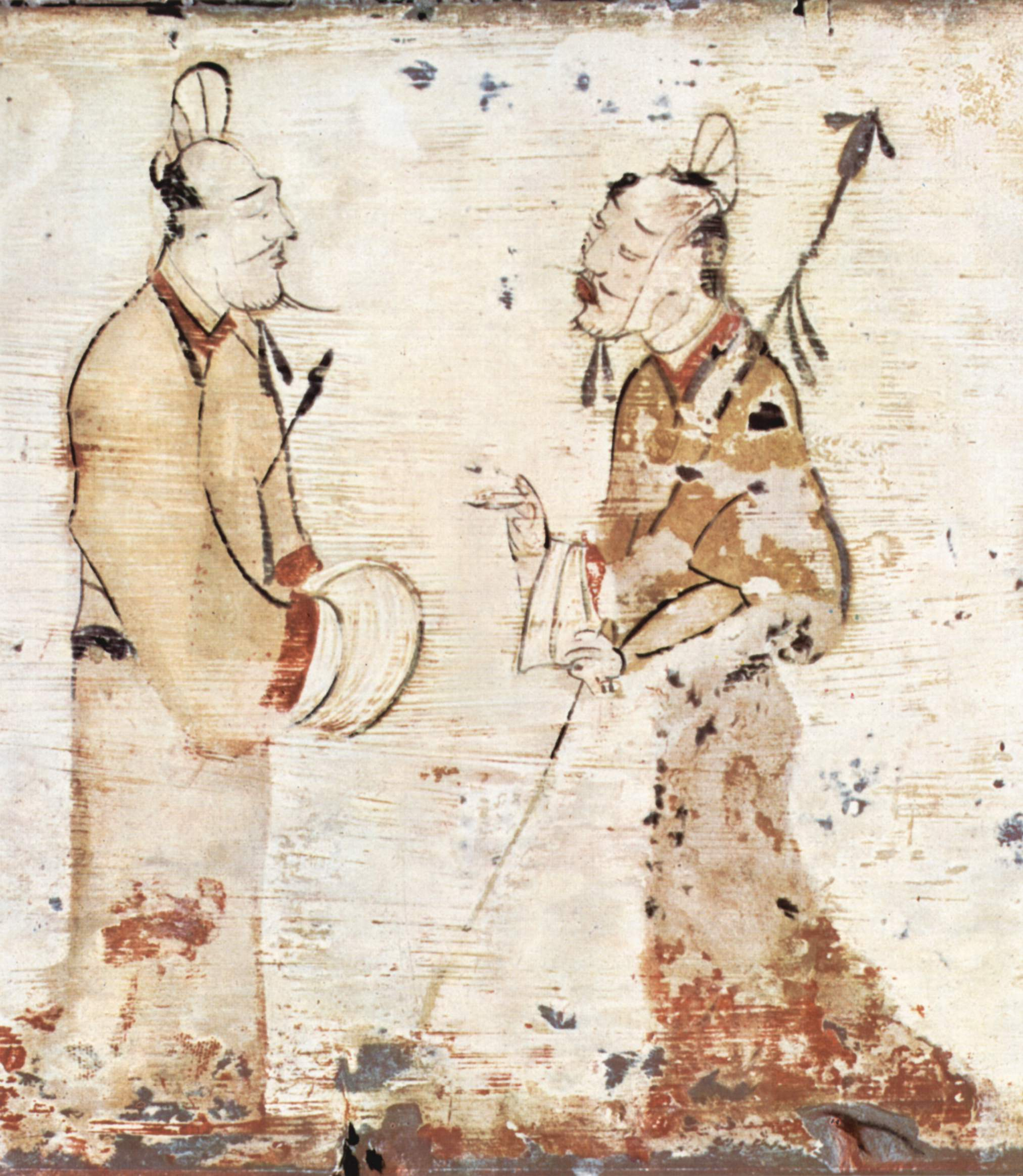 Figures painted on a ceramic tile of an Eastern Han Dynasty tomb near Luoyang, Henan province, China.label QS:Len,"Figures painted on a ceramic tile of an Eastern Han Dynasty tomb near Luoyang, Henan province, China."label QS:Lde,"Figuren auf einem Grabziegel"